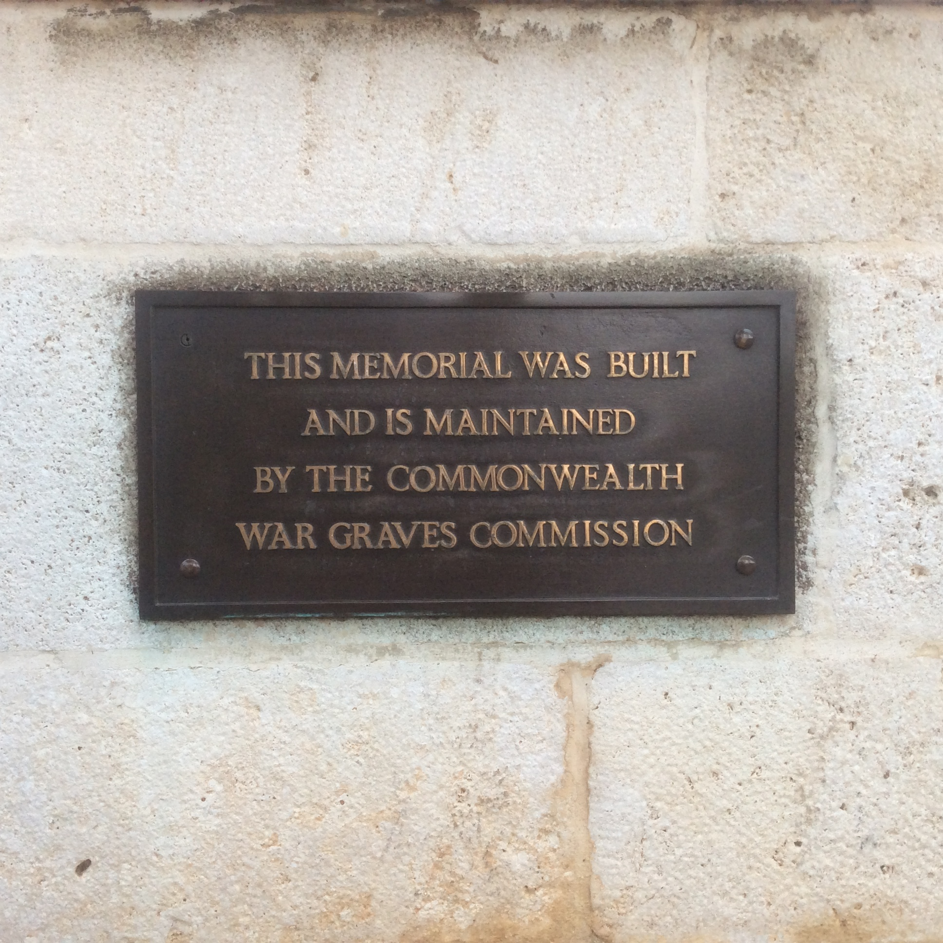 Valletta plaque of eagle national monument